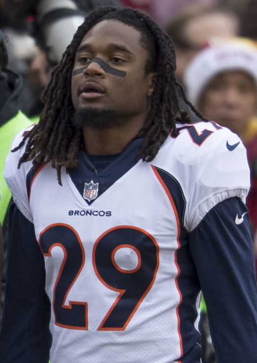 Broncos at Redskins 12/24/17